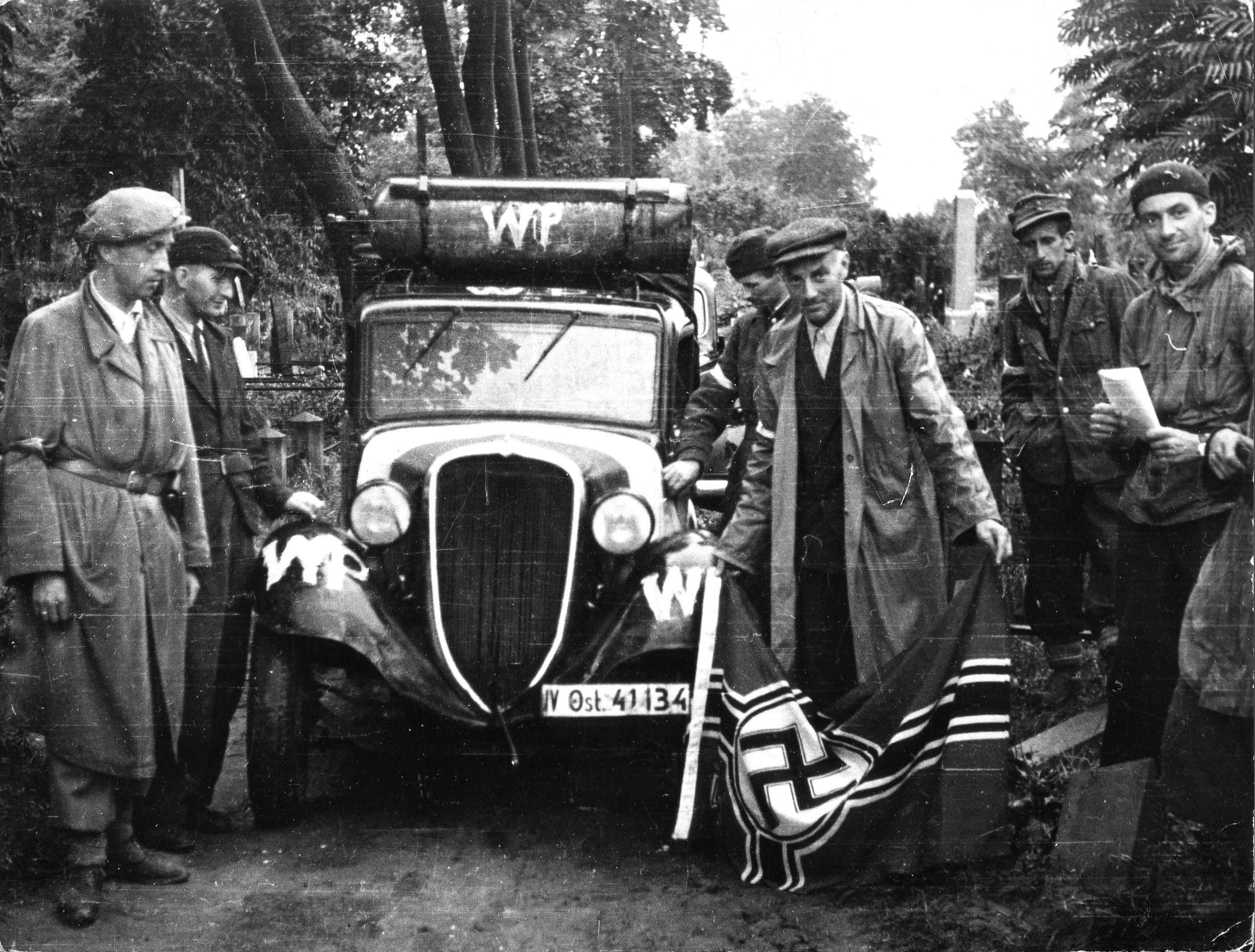 First days of Warsaw Uprising , Major Alfons Kotowski "Okon" in western Warsaw, August 1, 1944.